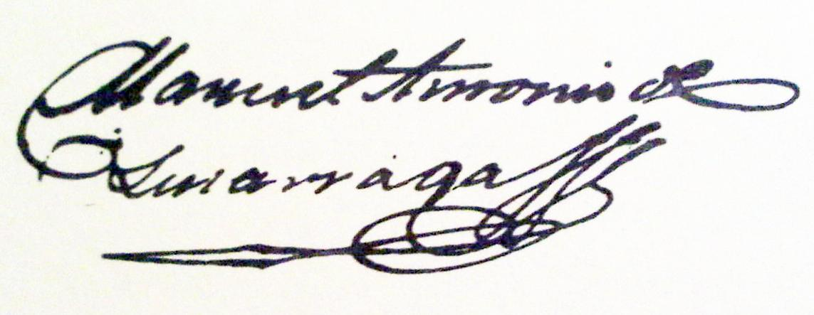 Firma del Gral Manuel Antonio de Luzarraga y Echezurria. Conde de Luzárraga.